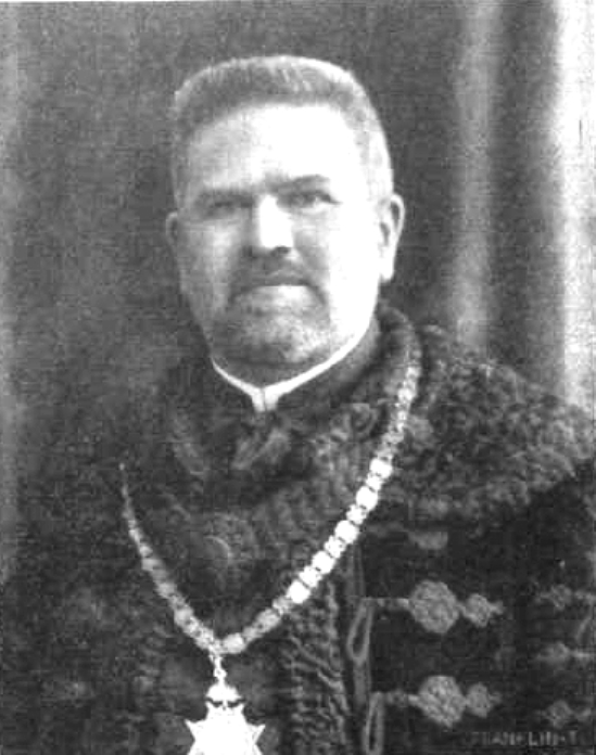 Portrait of Manó Beke